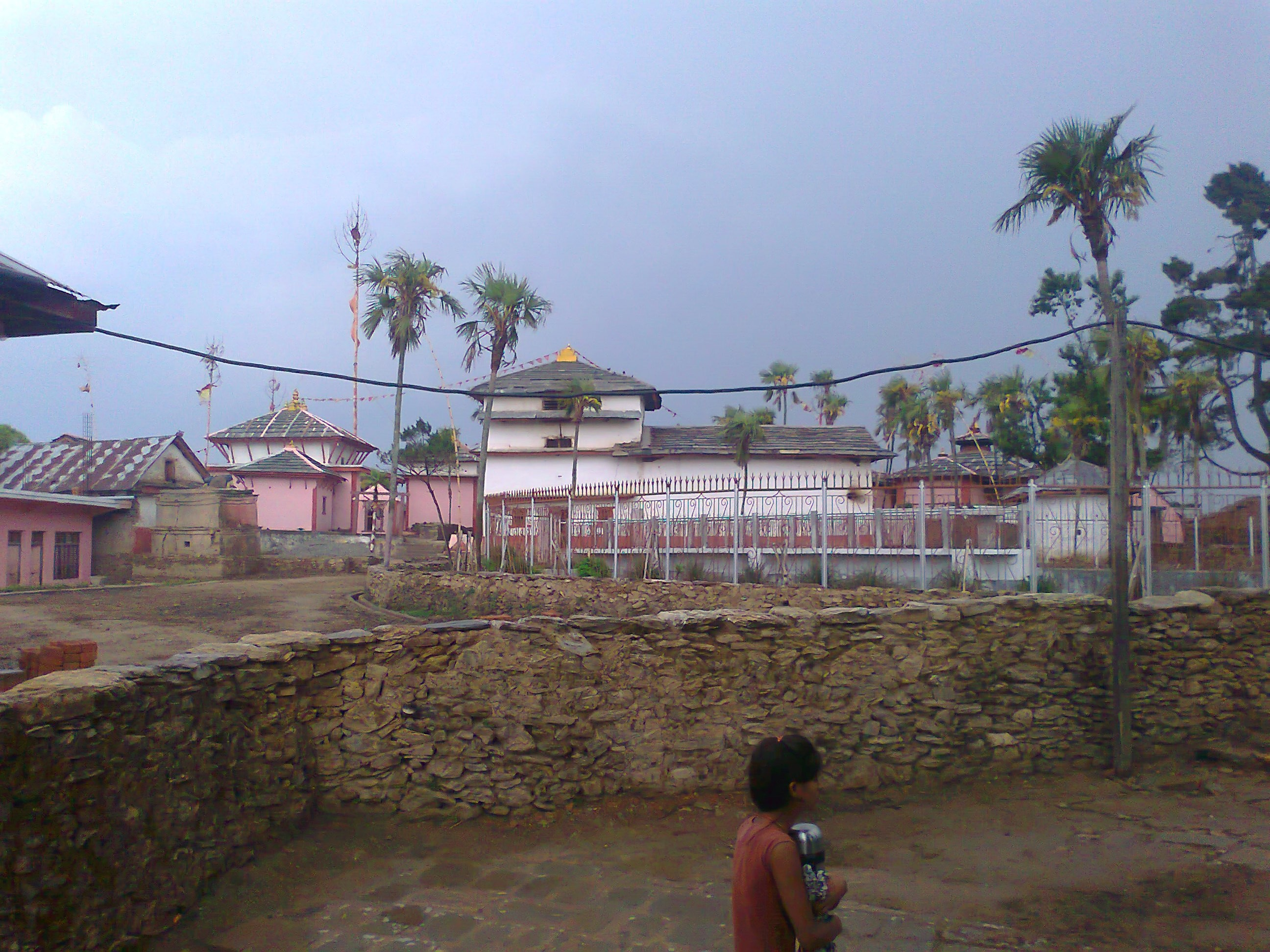 A side view of the swargadwari temple of pyuthan district of nepal